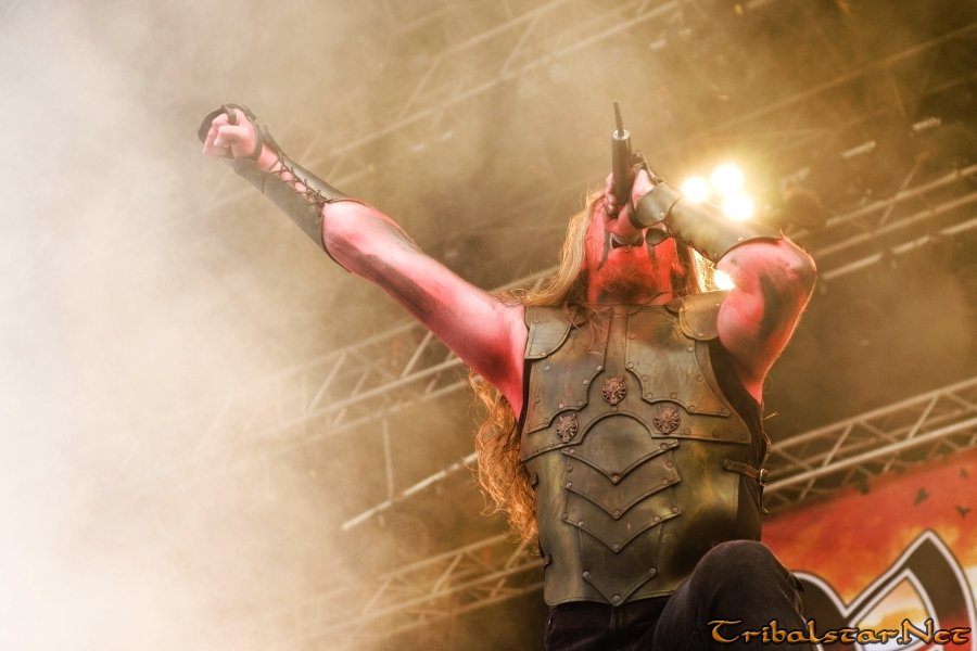 Varg playing a live concert on 14th of August 2010 on Party.San Open Air near Bad Berka (Thuringia, Germany)